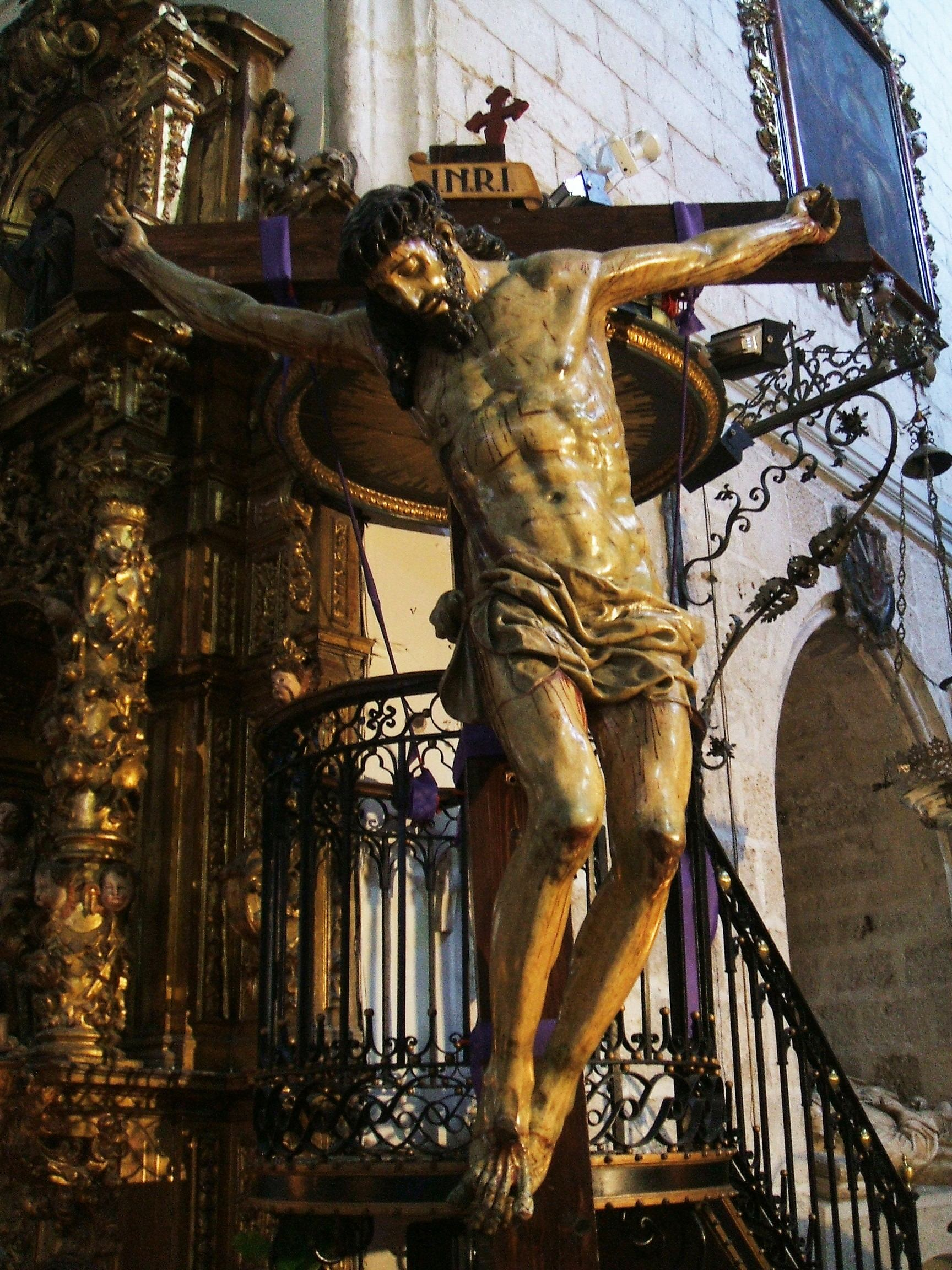 Santo Cristo de las Mercedes, del círculo de Pompeyo Leoni (s-XVI), en la iglesia de Santiago, Valladolid, España